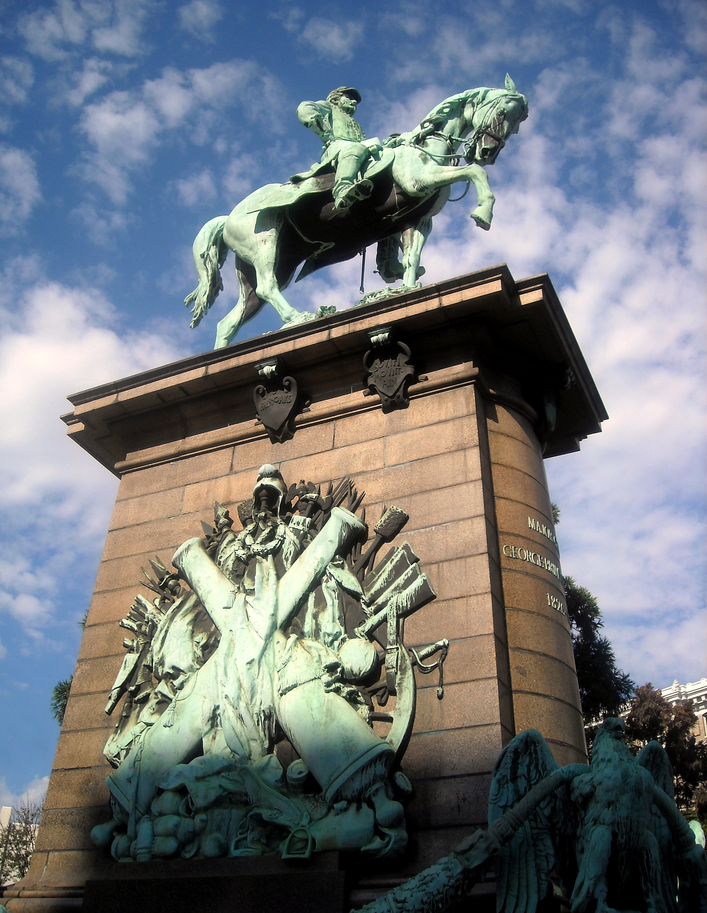 The George B. McClellan statue located at the intersection of Kalorama Road, Connecticut Avenue, and California Street, NW in the Kalorama Triangle neighborhood of Washington, D.C. The bronze equestrian was sculpted by Frederick MacMonnies in 1907 and is a contributing property to the Kalorama Triangle Historic District.